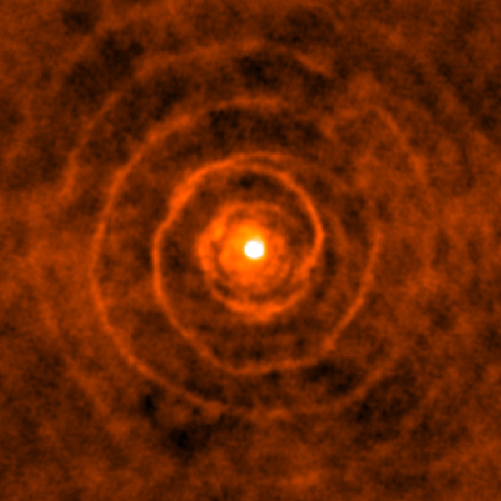 Although it looks like the pattern of a shell on the beach, this intriguing spiral is in fact astronomical in nature. The Atacama Large Millimeter/submillimeter Array (ALMA) captured this remarkable image of a binary star system, where two stars — LL Pegasi and its companion — are locked in a stellar waltz, orbiting around their common centre of gravity. The old star LL Pegasi is continuously losing gaseous material as it evolves into a planetary nebula, and the distinct spiral shape is the imprint made by the stars orbiting in this gas. The spiral spans light-years and winds around with extraordinary regularity. Based on the expansion rate of the spiralling gas, astronomers estimate that a new “layer” appears every 800 years — approximately the same time it takes for the two stars to complete one orbit around each other. LL Pegasi was first highlighted about 10 years ago when the NASA/ESA Hubble Space Telescope obtained a picture of the almost-perfect spiral structure. This was the first time a spiral pattern had been found in material surrounding an old star. Now, ALMA’s observations, of which this image only shows one “cross-section”, have added an extra dimension to reveal the exquisitely-ordered 3D geometry of the spiral pattern. A full view of the 3D video can be seen in this video. An additional image shows a composition of the ALMA and Hubble data.